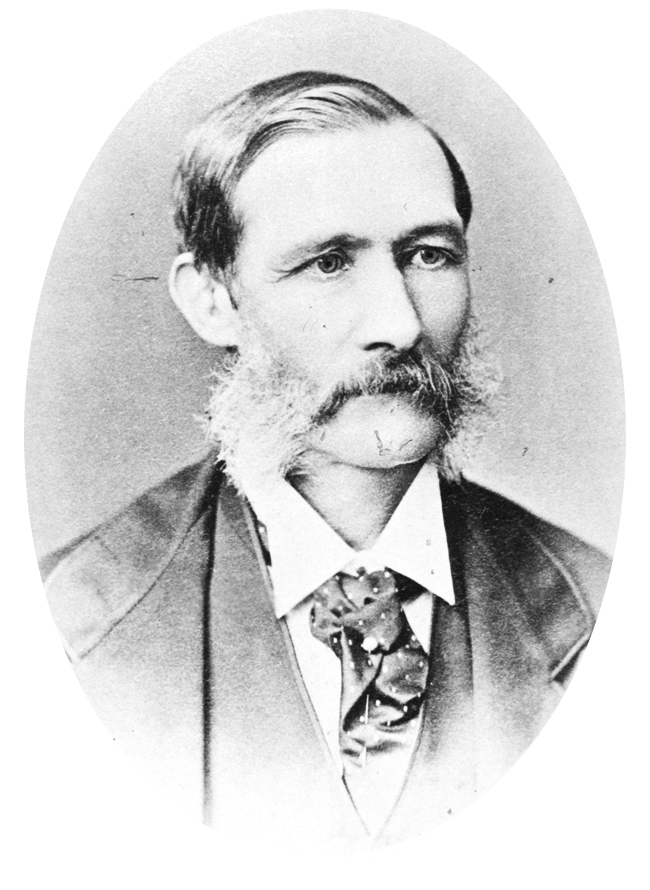 Portrait of Dietrich Brandis (March 31, 1824 - May 29, 1907)